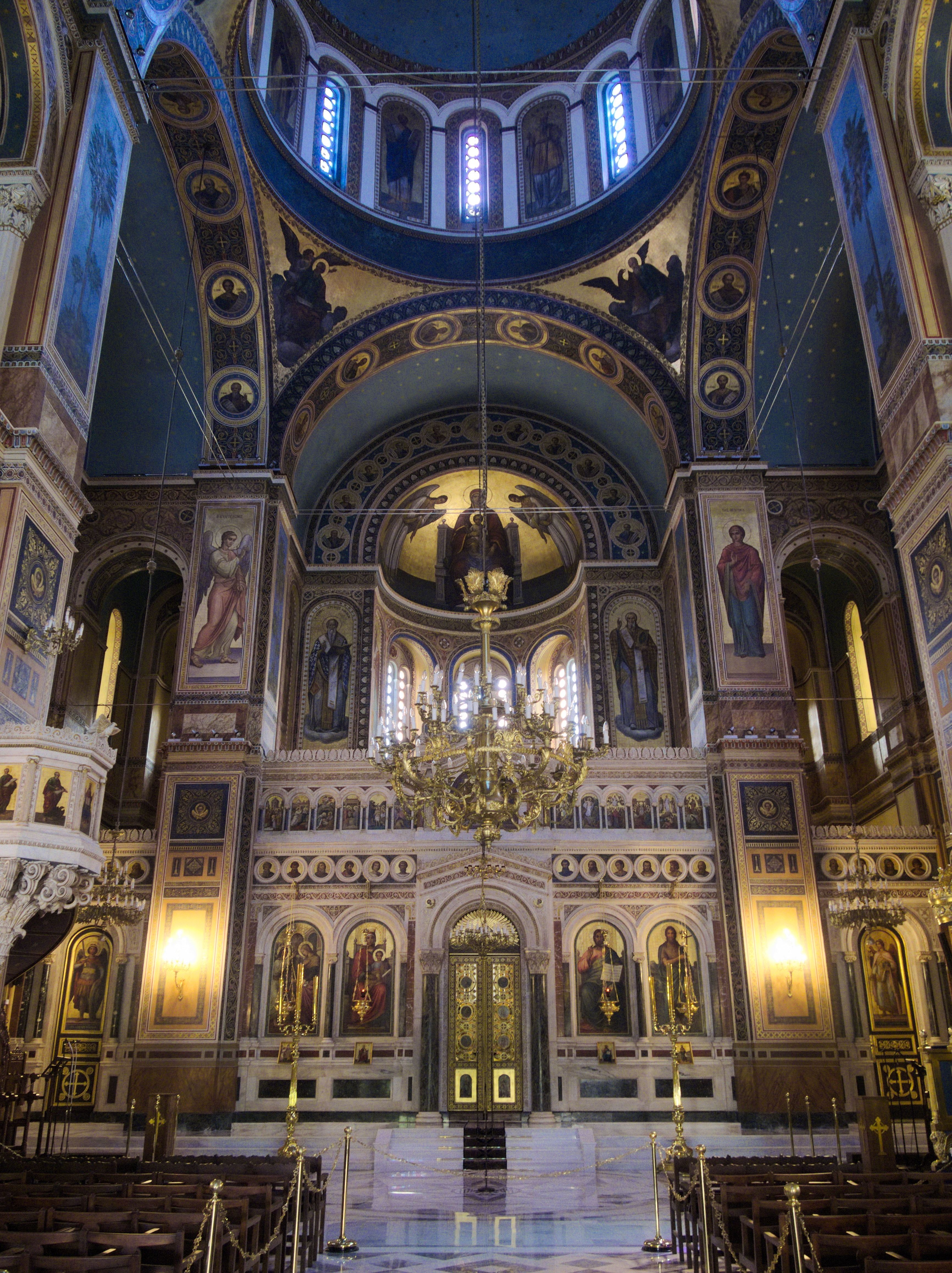 The interior of the Metropolis of Athens after the renovation.